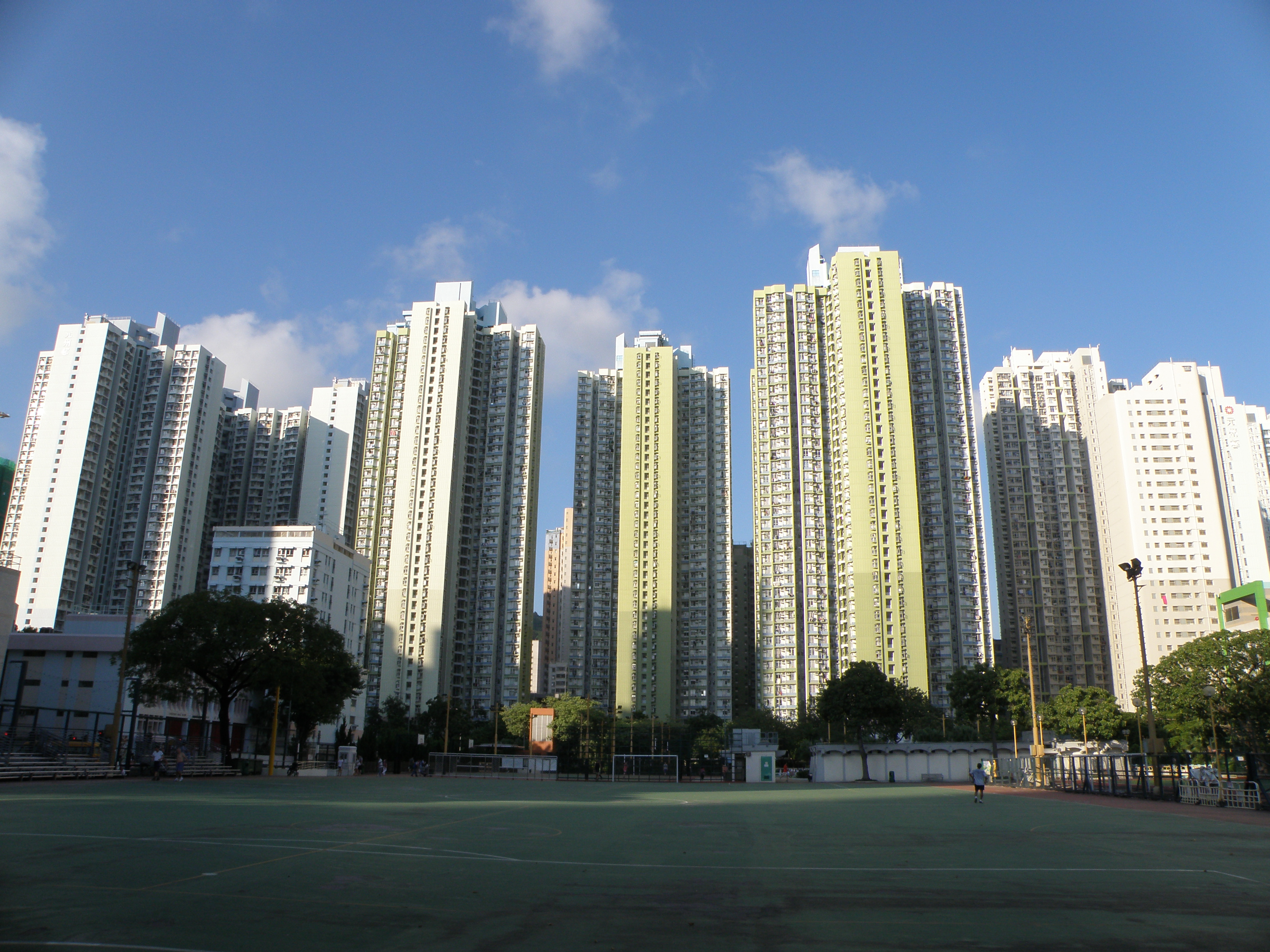 Un Chau Estate in Cheung Sha Wan, Hong Kong.